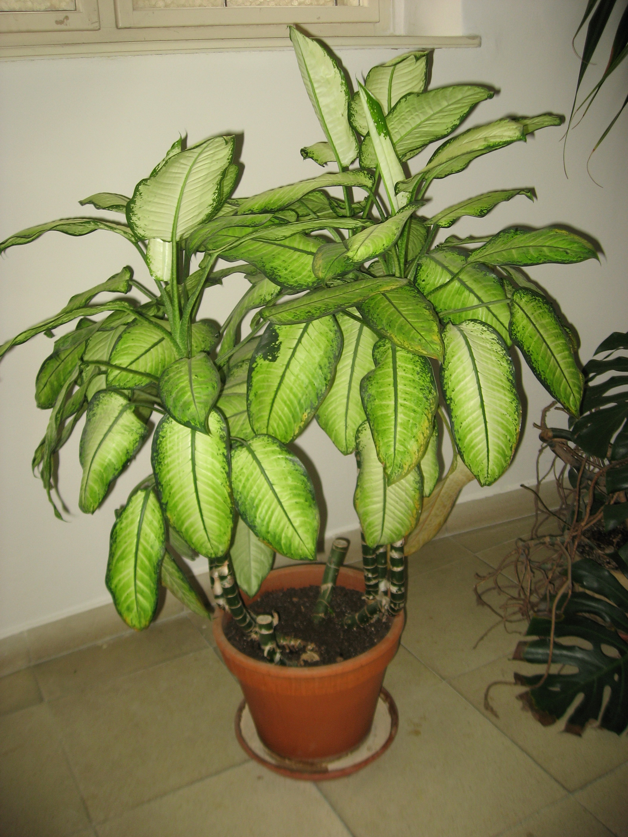 Dieffenbachia seguine as a potted house plant.